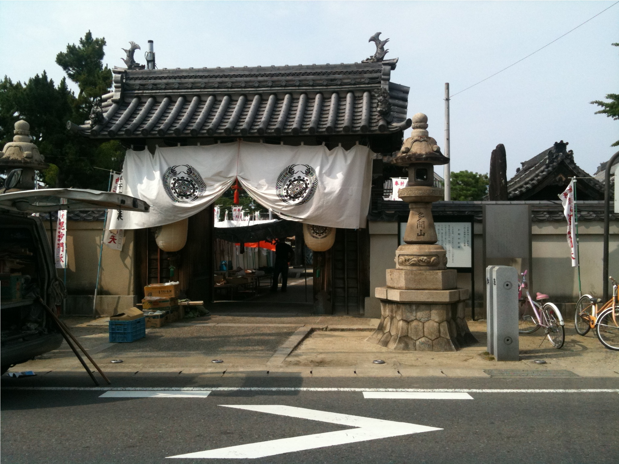 Bishamon in Shiki